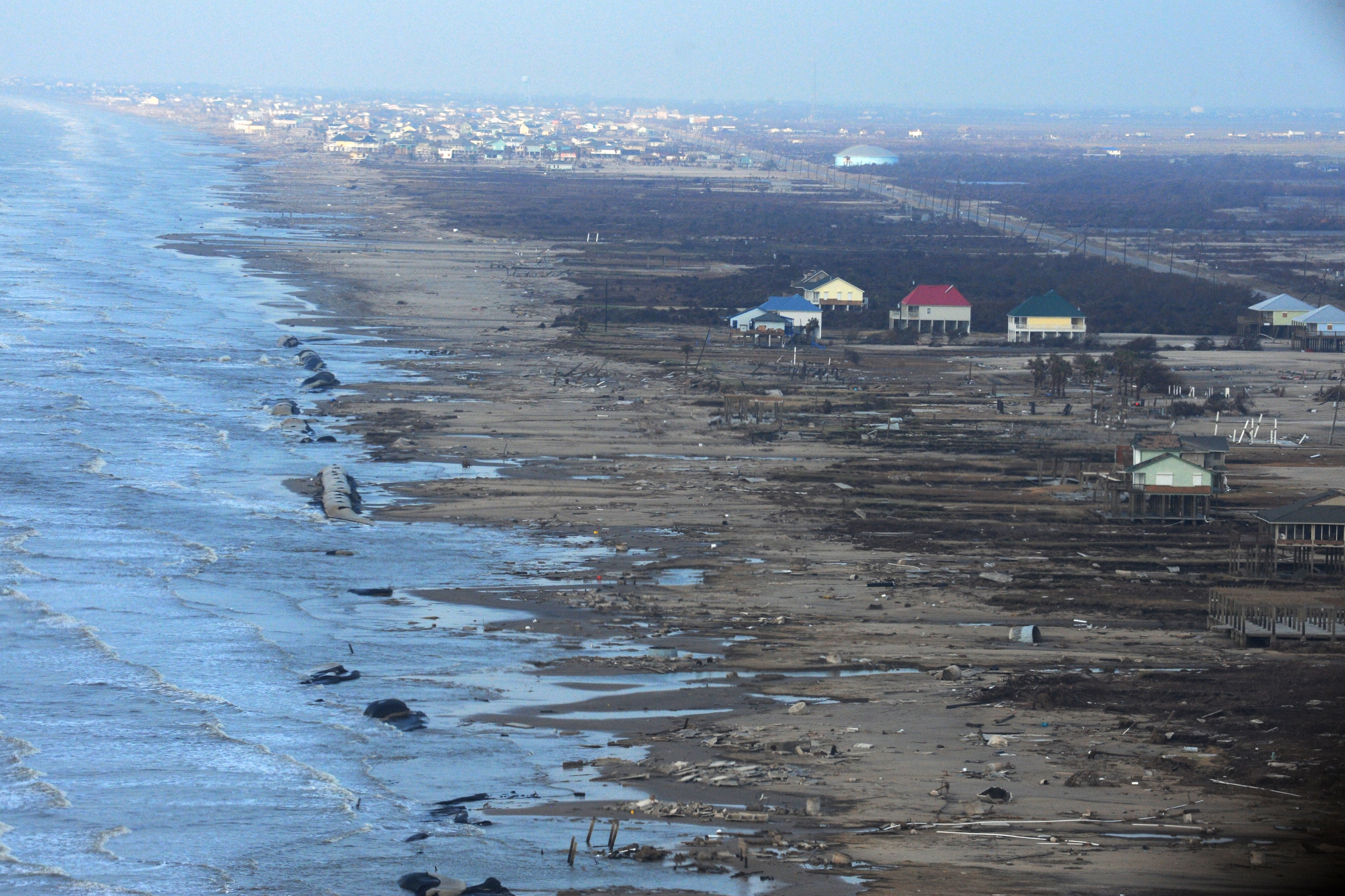 Bolivar Peninsula, TX, September 24, 2008 -- A number of houses remain standing next to pilings where neighboring houses once stood. The peninsula has pockets of complete detestation from Hurricane Ike. Jocelyn Augustino/FEMA